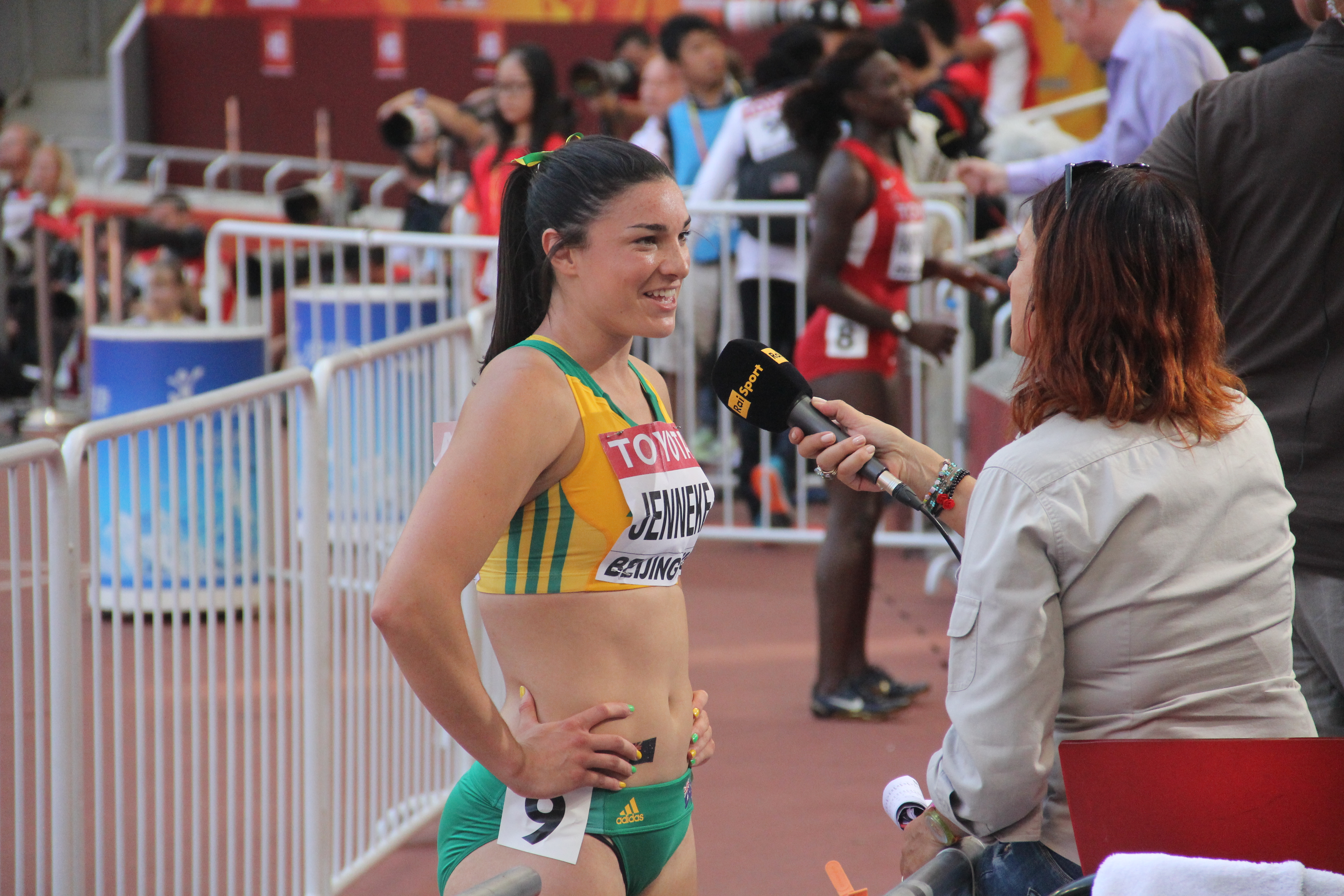 2015 World Championships in Athletics